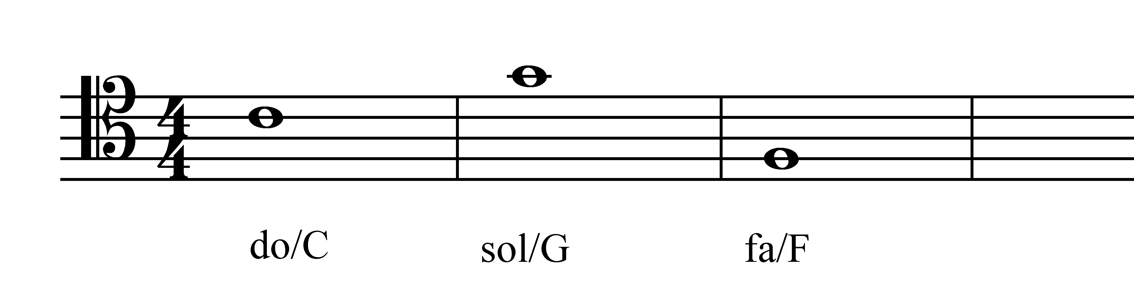 Tenor clef.